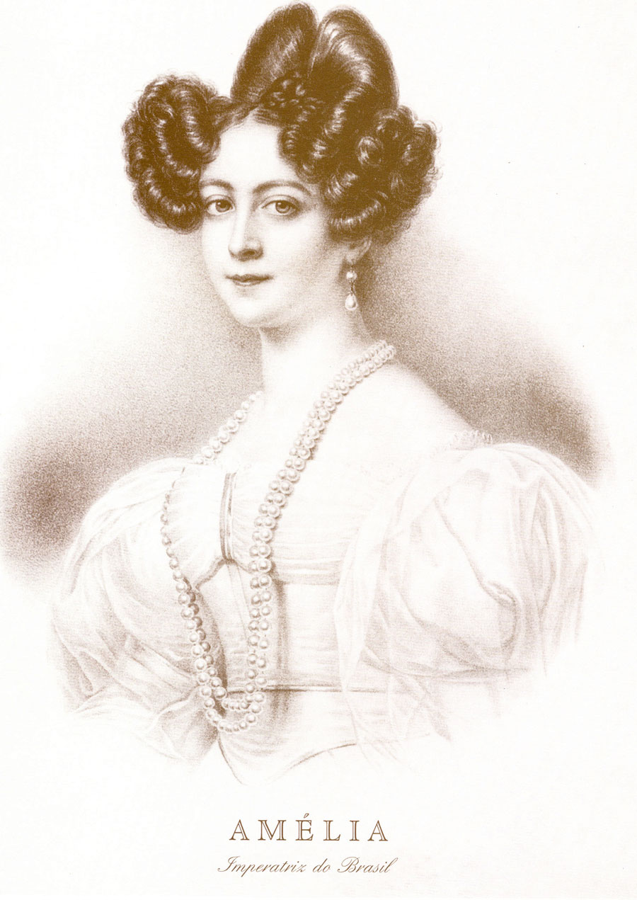 Empress Amélia of Brazil.